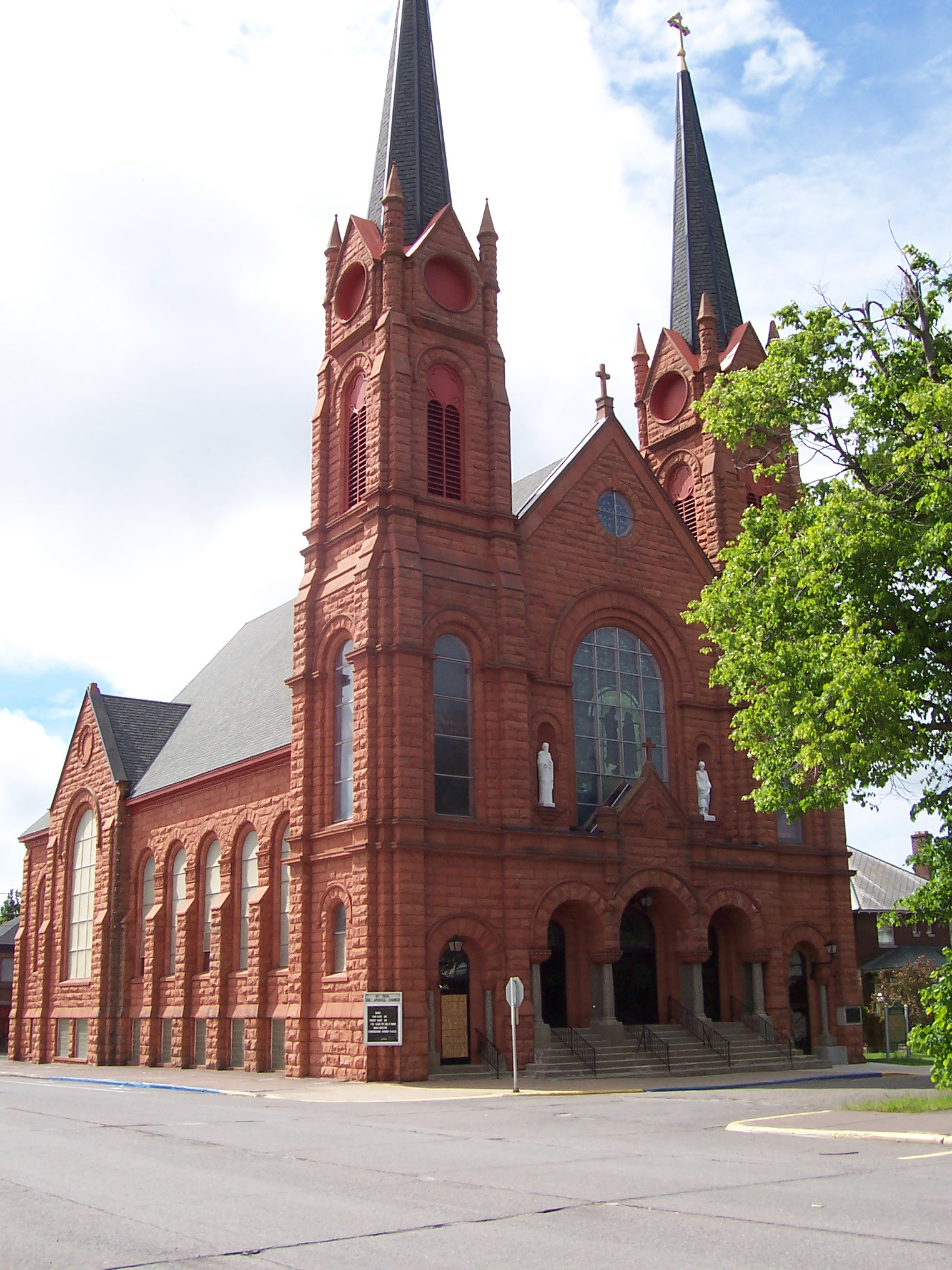 St. Paul the Apostle Catholic Church, located at 301 Eighth Street, Calumet, Michigan. The church is listed as a Michigan State Historic Site.